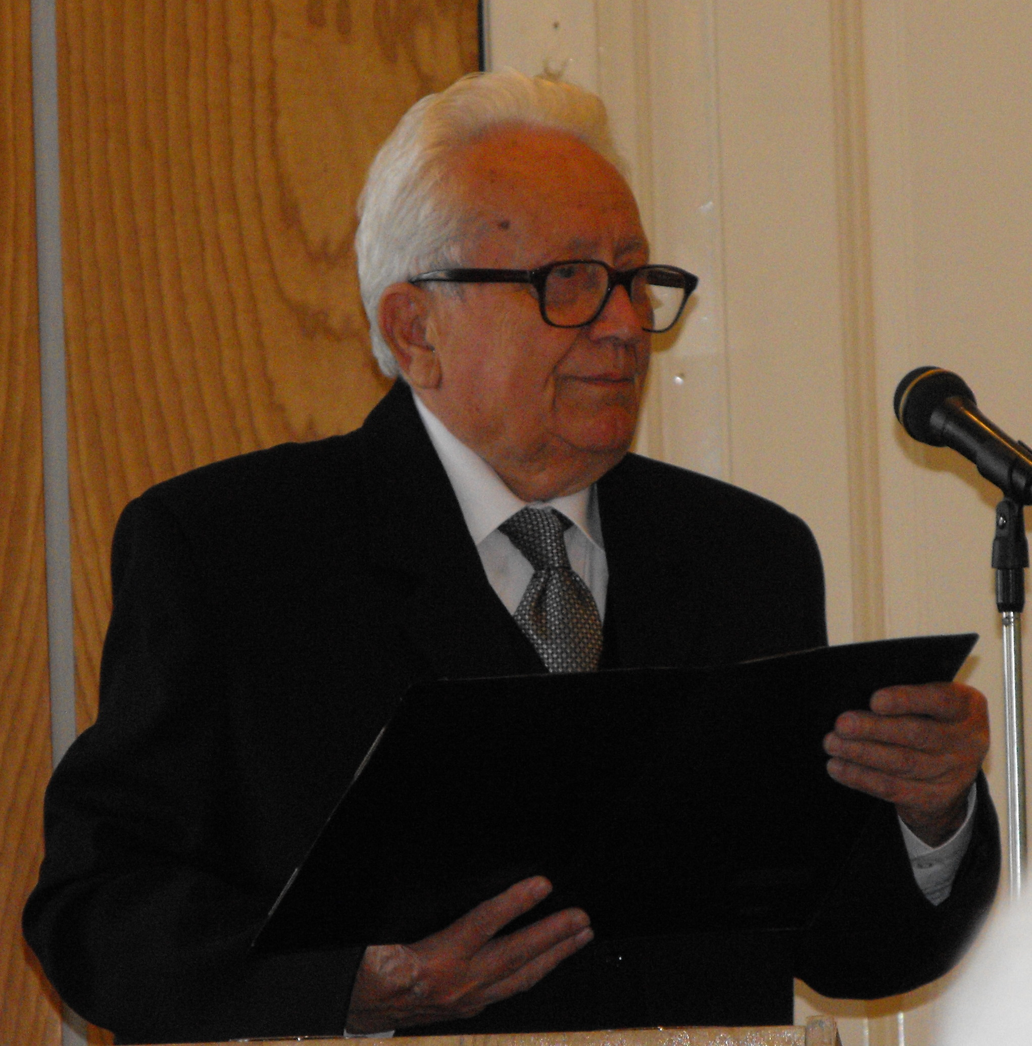 Ferenc Tóth, historian, museologist, former director of the local museum delivers a speech in the Town Hall, Makó, Hungary.